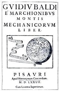 Cover of Mechanicorum Liber, by Guidobaldo del Monte, Italian astronomer.